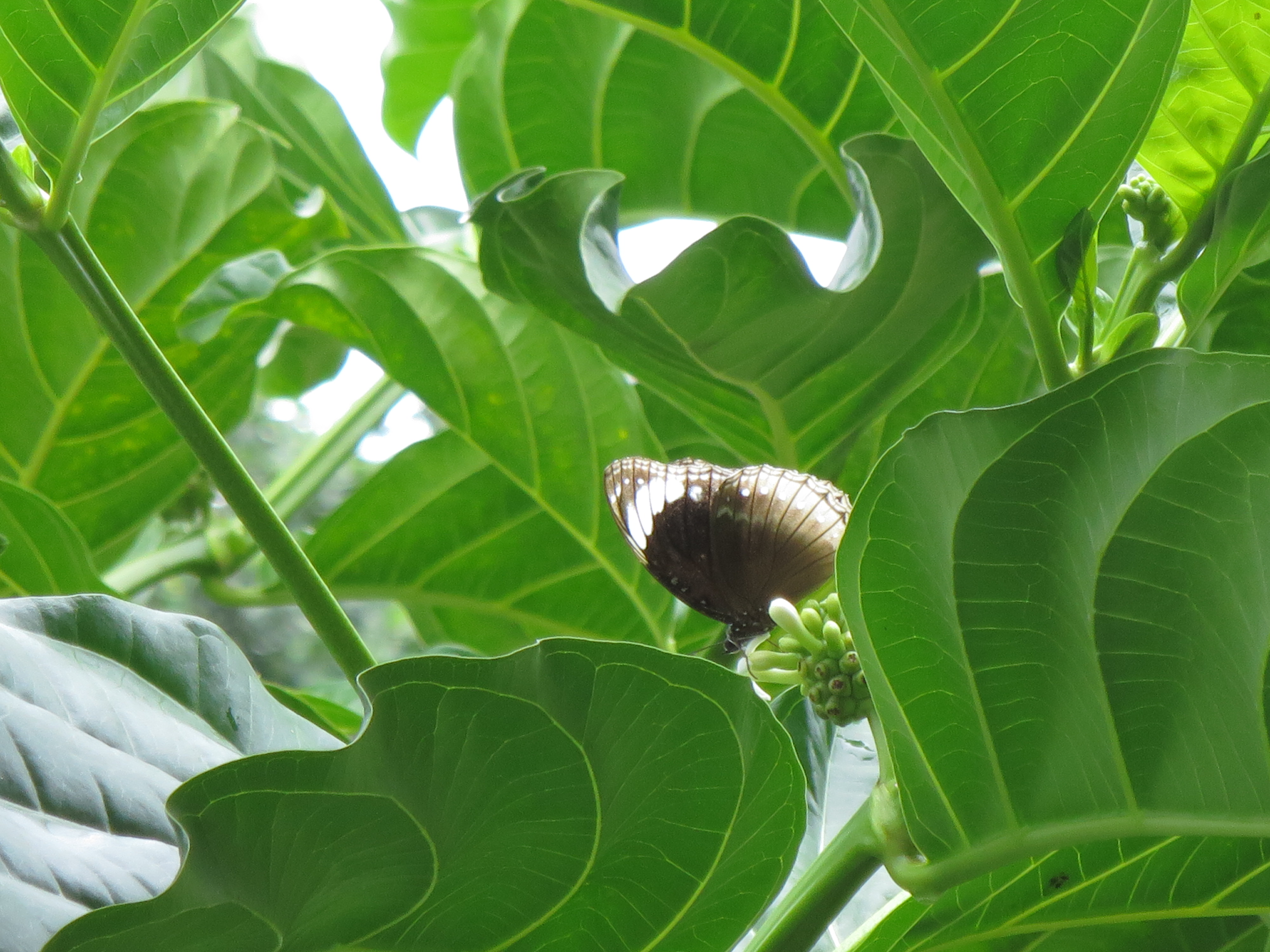 This photograph of one of the many butterflies in Kirakira was taken at the Freshwinds Guesthouse.